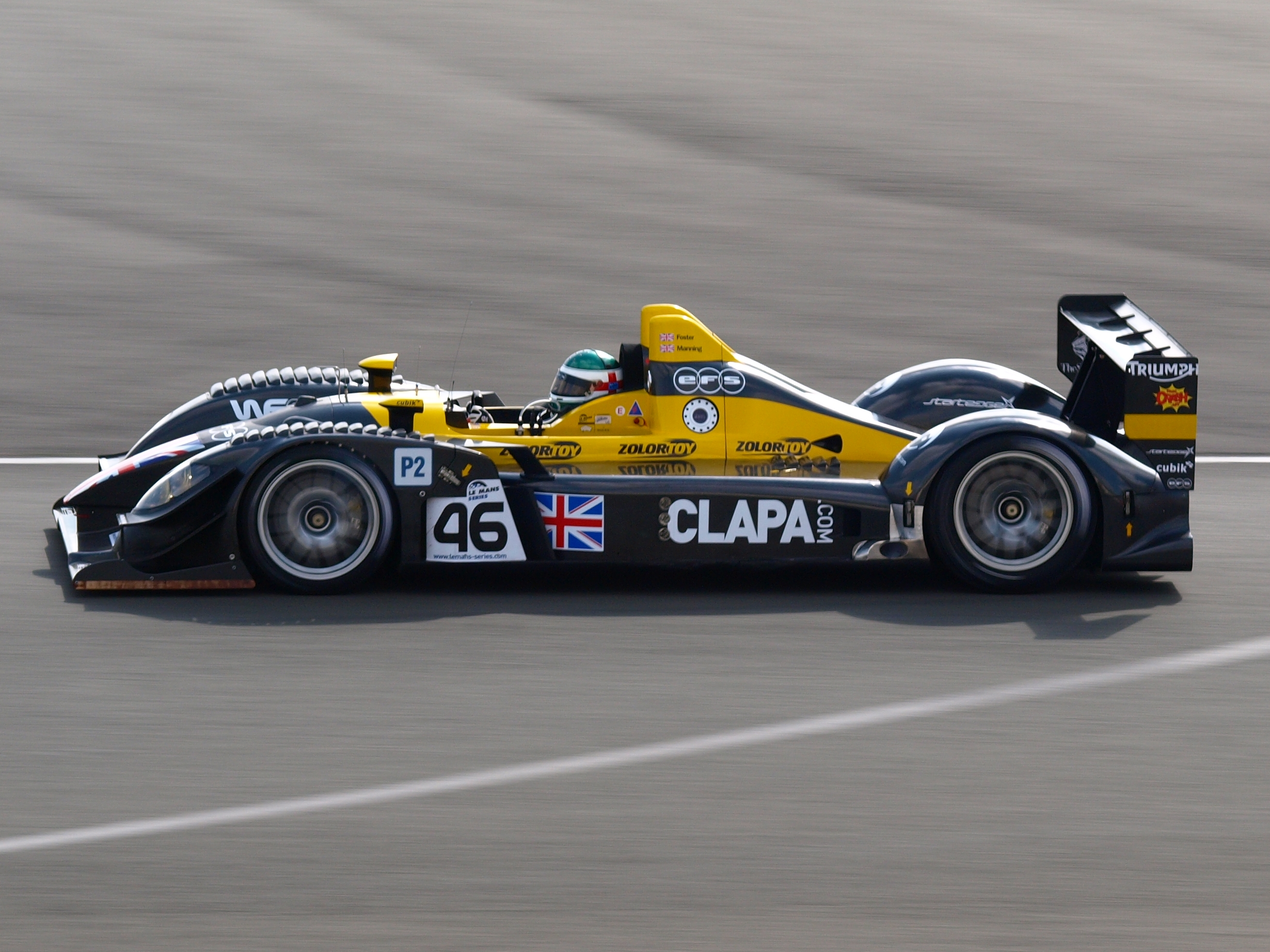 Embassy Racing's Embassy WF01-Zytek at the 2008 1000km of Silverstone with Darren Manning driving.